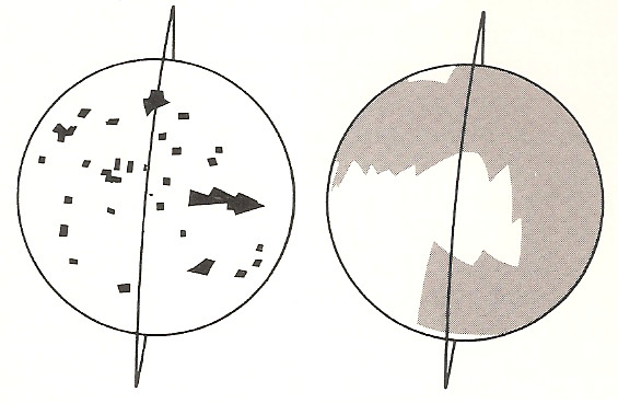 Part of Figure 1, Photographic Coverage showing spacecraft orbit and coverage on near side (left) and far side (right) of Lunar Orbiter 5.